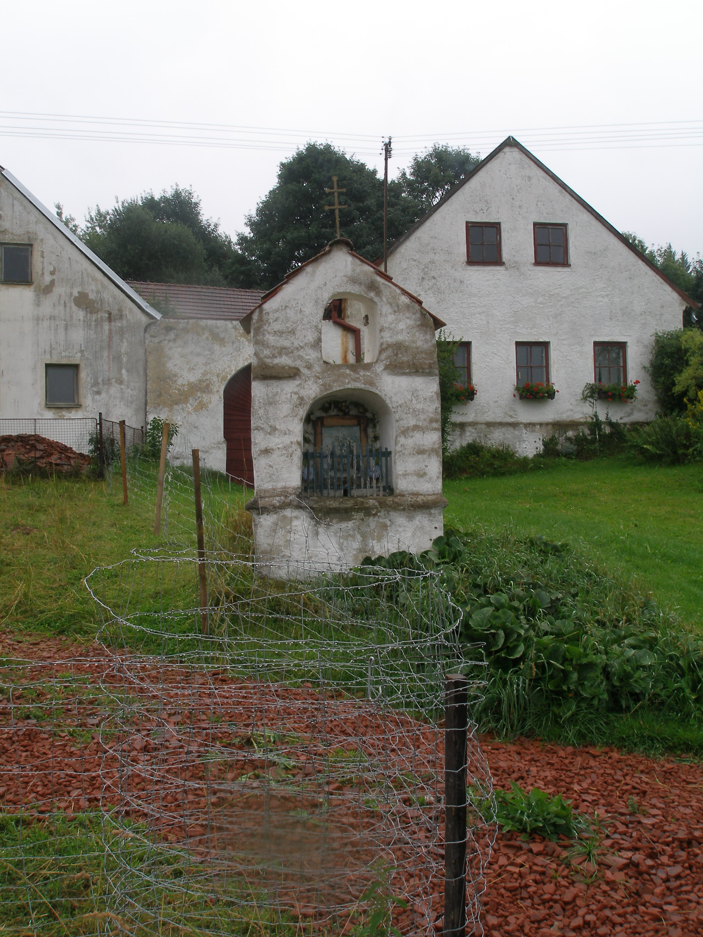 Zahořánky - chapel on the square